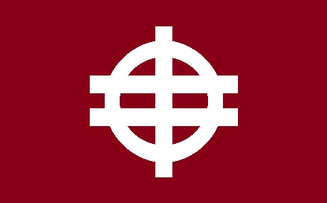 Flag of Waki Yamaguchi